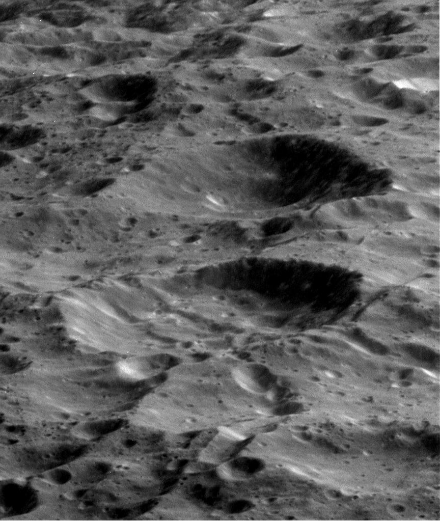 This image was taken on March 09, 2013, and received on Earth March 10, 2013, by NASA's Cassini spacecraft. The camera was pointing toward Rhea at approximately 2,348 miles (3,778 kilometers) away, and the image was taken using the CL1 and CL2 filters. This image has not been validated or calibrated